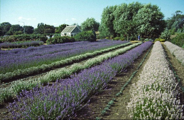 Lavender Fields at Norfolk Lavender, Heacham, Norfolk Lavender Fields, showing the different colours of the various types of lavender grown in these fields. I was told when I went there that some of the plants were 60 years old and they are cut back each year to allow new growth.